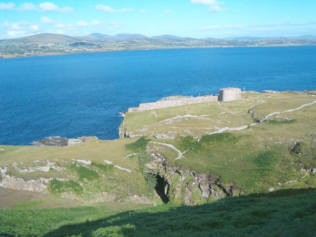 The Fanad Peninsula lies between Lough Swilly and Mulroy Bay on the north coast of County Donegal in Ireland.